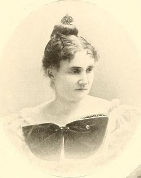 Mrs David Josiah Brewer